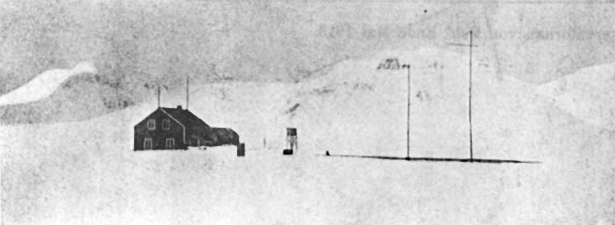 The observatory of the Crossbai-expedition of Max Robitzsch and Kurt Wegener, who undertook numerous meteorological weather balloon launches here. Only known published photo, from 1913.